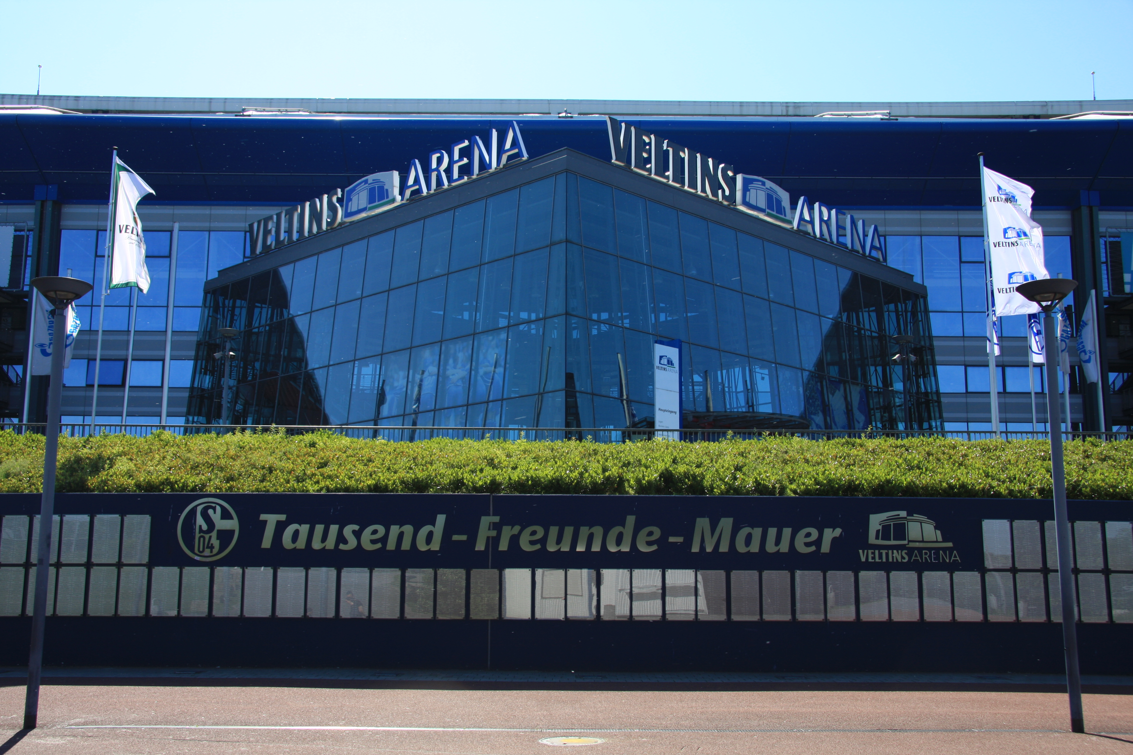 Arena AufSchalke, the "wall of thousand friends"